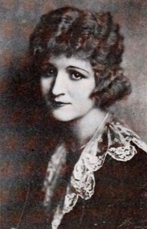 Still from the American film Why Change Your Wife? (1920) with Julia Faye in a blonde wig, on page 73 of the March 27, 1920 Exhibitors Herald. She had a small part in the film.